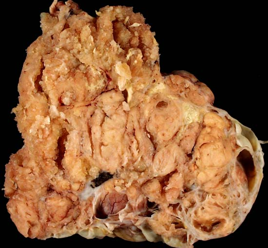 This 17-centimeter serous cystadenocarcinoma was discovered during exploratory laparotomy of a woman who presented with intestinal obstruction, which was caused by extrinisic compression of the bowel by one of the many intra-abdominal metastases of this tumor. Grossly, the tumor's cut surface demonstrates both cystic and papillary architectural patterns. The photo was taken with an Olympus D-600L digital camera on a copy stand illuminated by 4 photofloods. The specimen had been fixed in formalin overnight and immersed in 70% ethanol shortly before it was photographed. Photograph by Ed Uthman, MD. Public domain. Posted 15 Jan 99